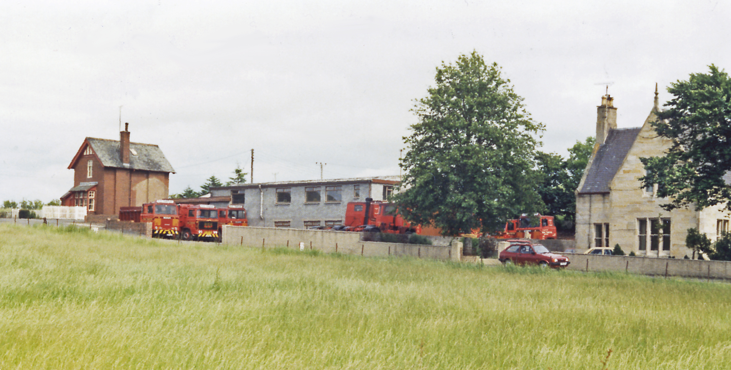 Cassillis station (remains), 1986. View NE, towards Ayr: ex-Glasgow & South Waetern (Glasgow) - Ayr - Girvan - Stranraer main line. The station had been closed from 6/12/54, but seems now to be well preserved in private hands; the line although not visible here is still active.